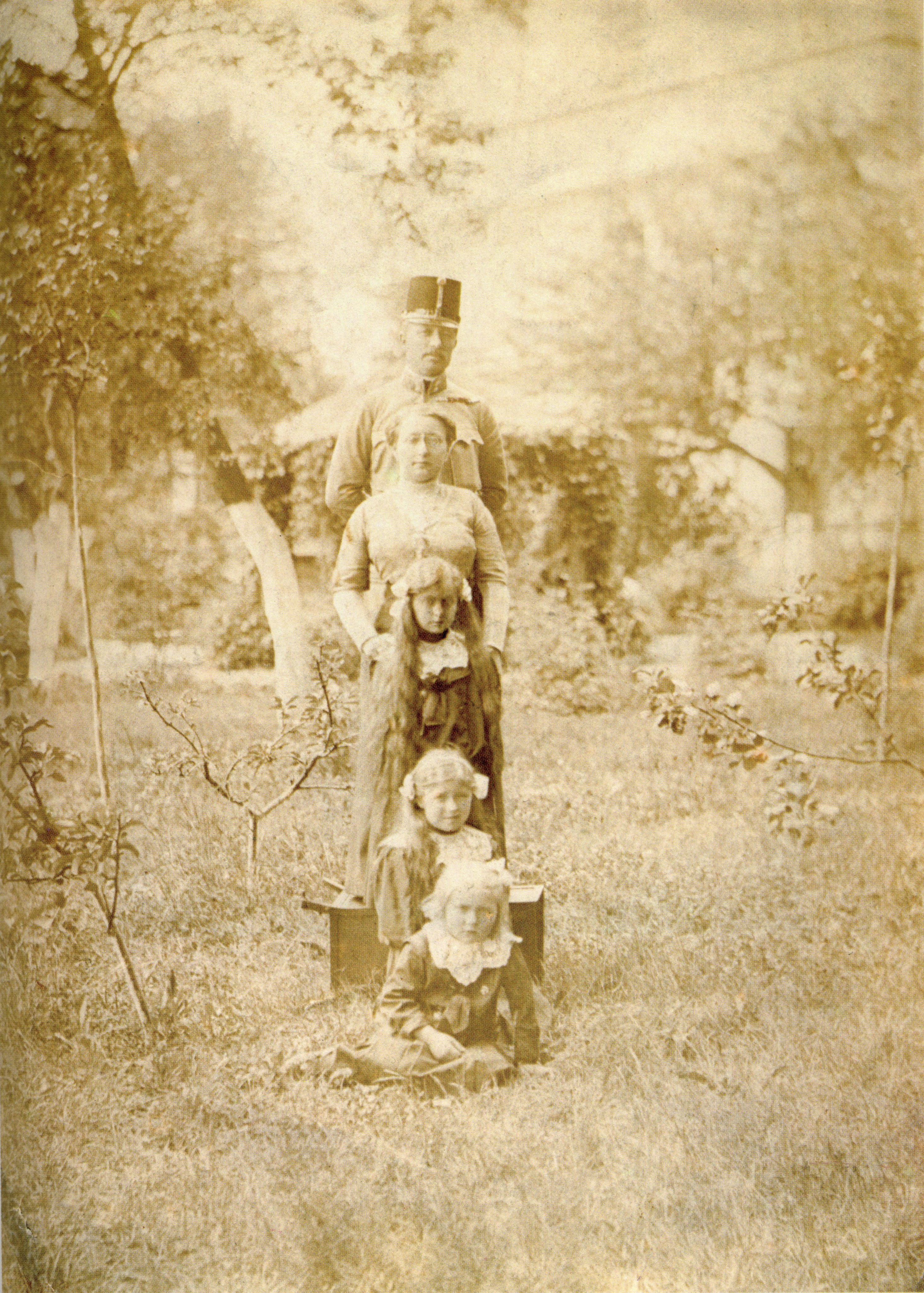 Franciszek Ksawery Latinik with his family in Łobzów.